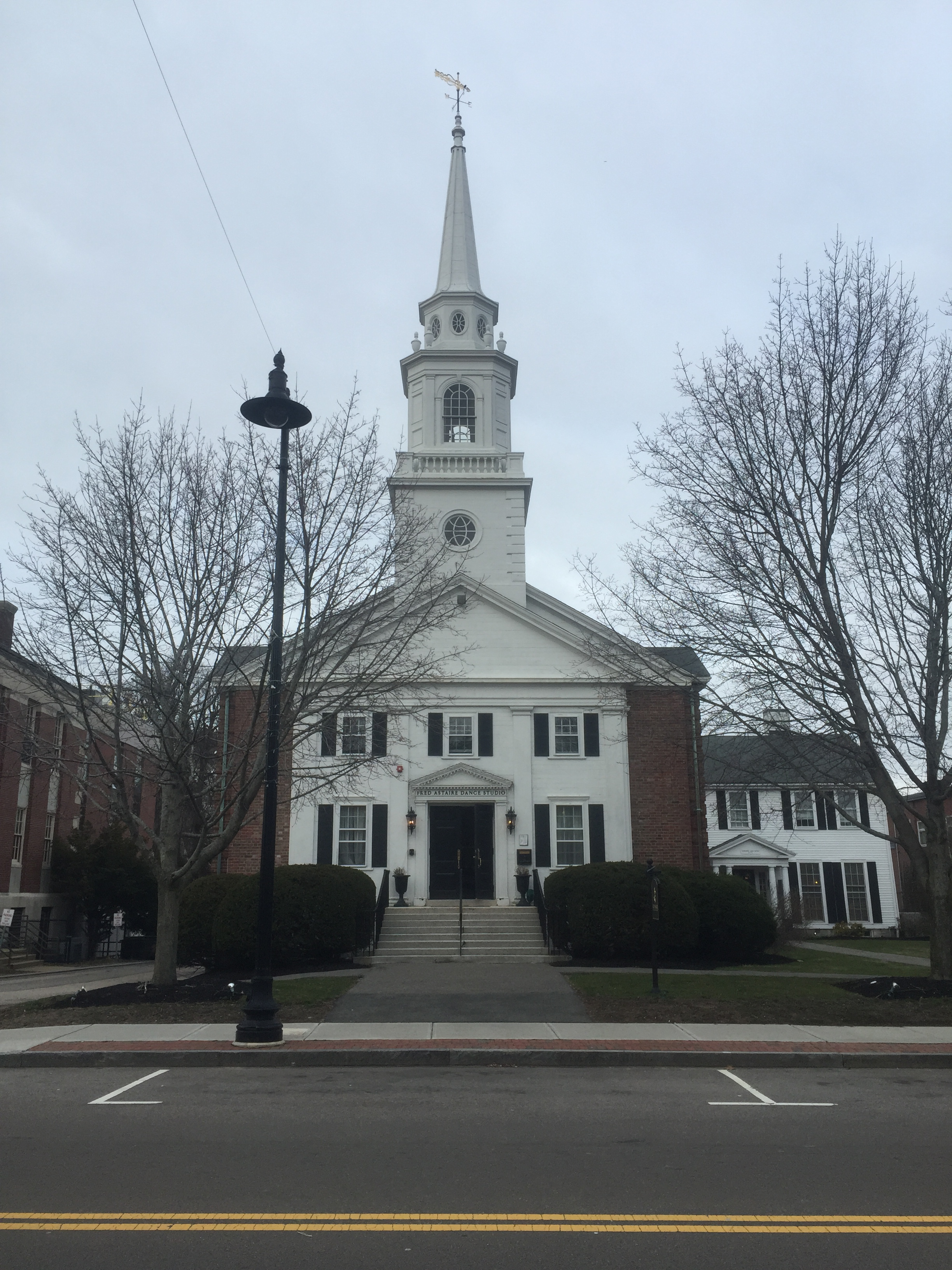 The First Church of Christ, Scientist, in Dedham, Massachusetts, United States.